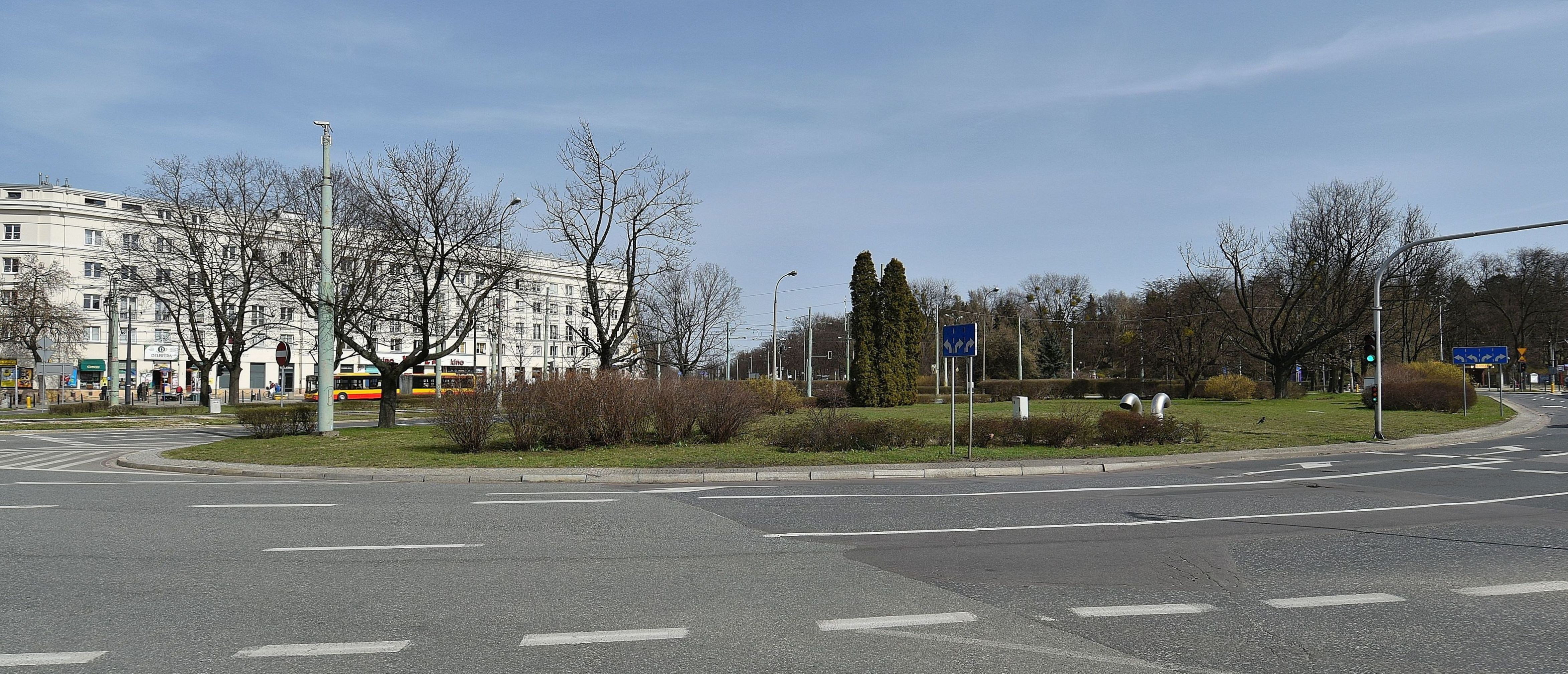 Wilson Square in Warsaw, view towards Krasińskiego Street